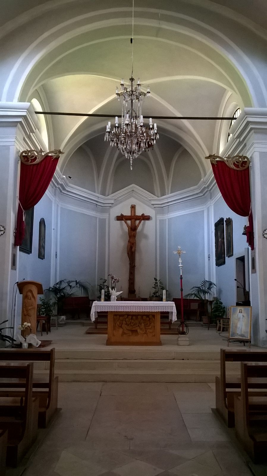 The high altar of the main church of San Donato, comune of Lamon, province of Belluno, Italy